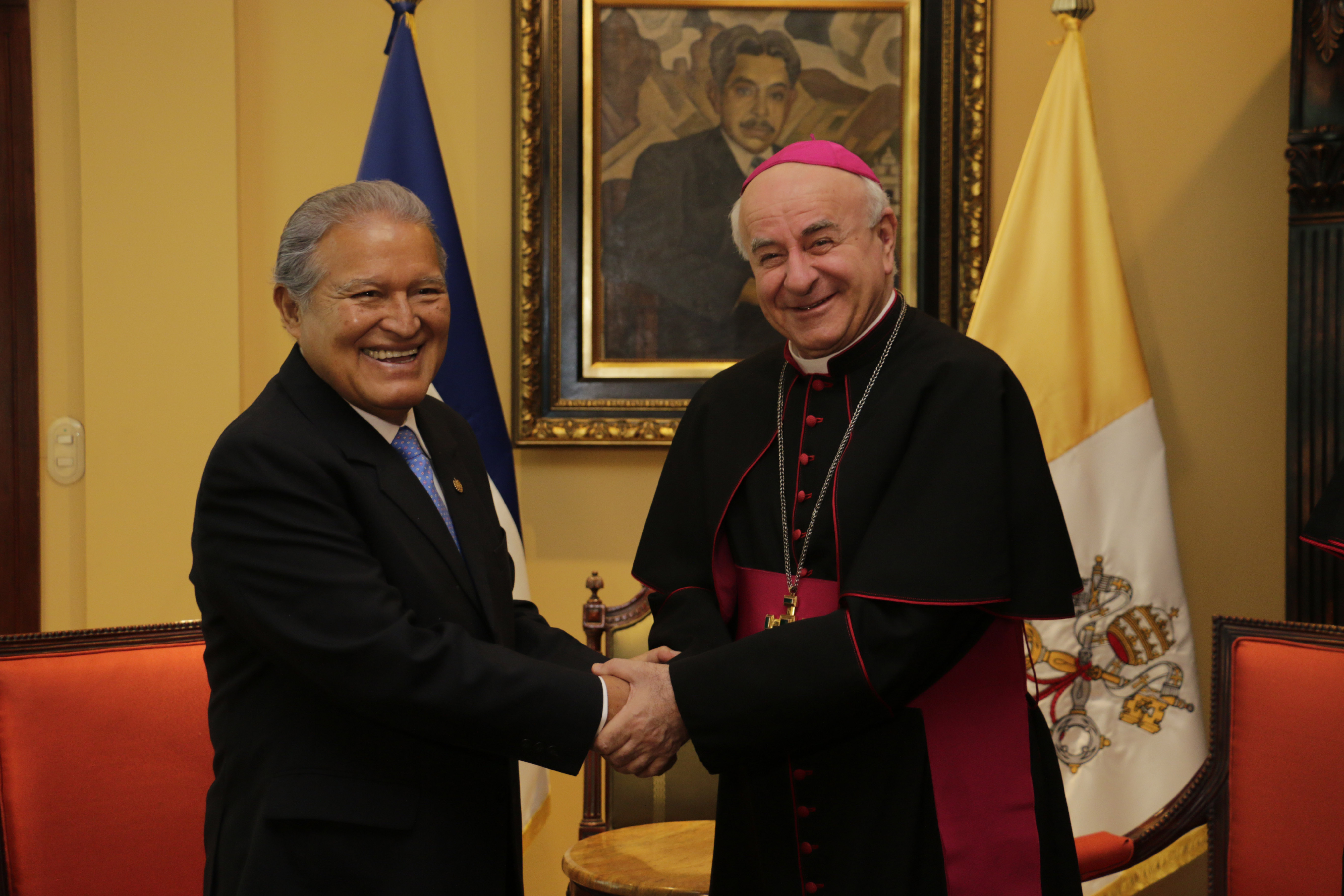 SALVADOR SANCHEZ CEREN , PRESIDENTE DE EL SALVADOR (IZQ.) SALUDA A MONSEÑOR VINCENZO PAGLIA , POSTULADOR DE LA CAUSA DE MONSEÑOR ROMERO EN EL VATICANO.